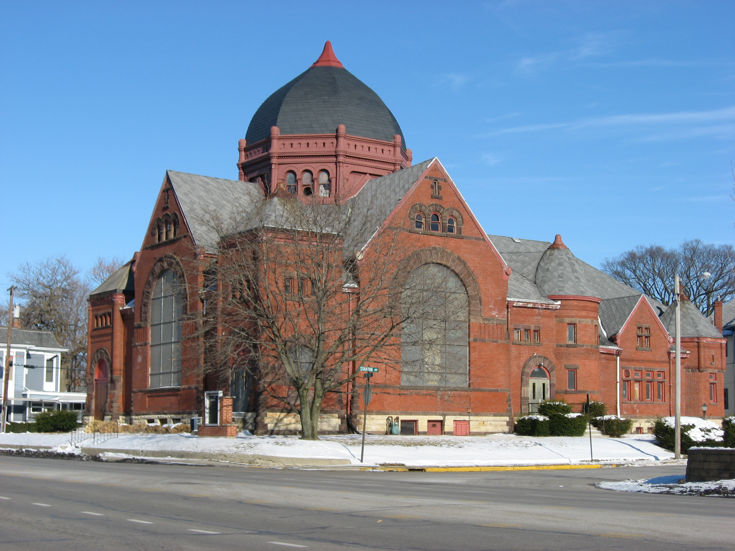 Front and western side of the former Third Presbyterian Church, located at 714 N. Limestone Street in Springfield, Ohio, United States. Built in 1894, it is listed on the National Register of Historic Places.